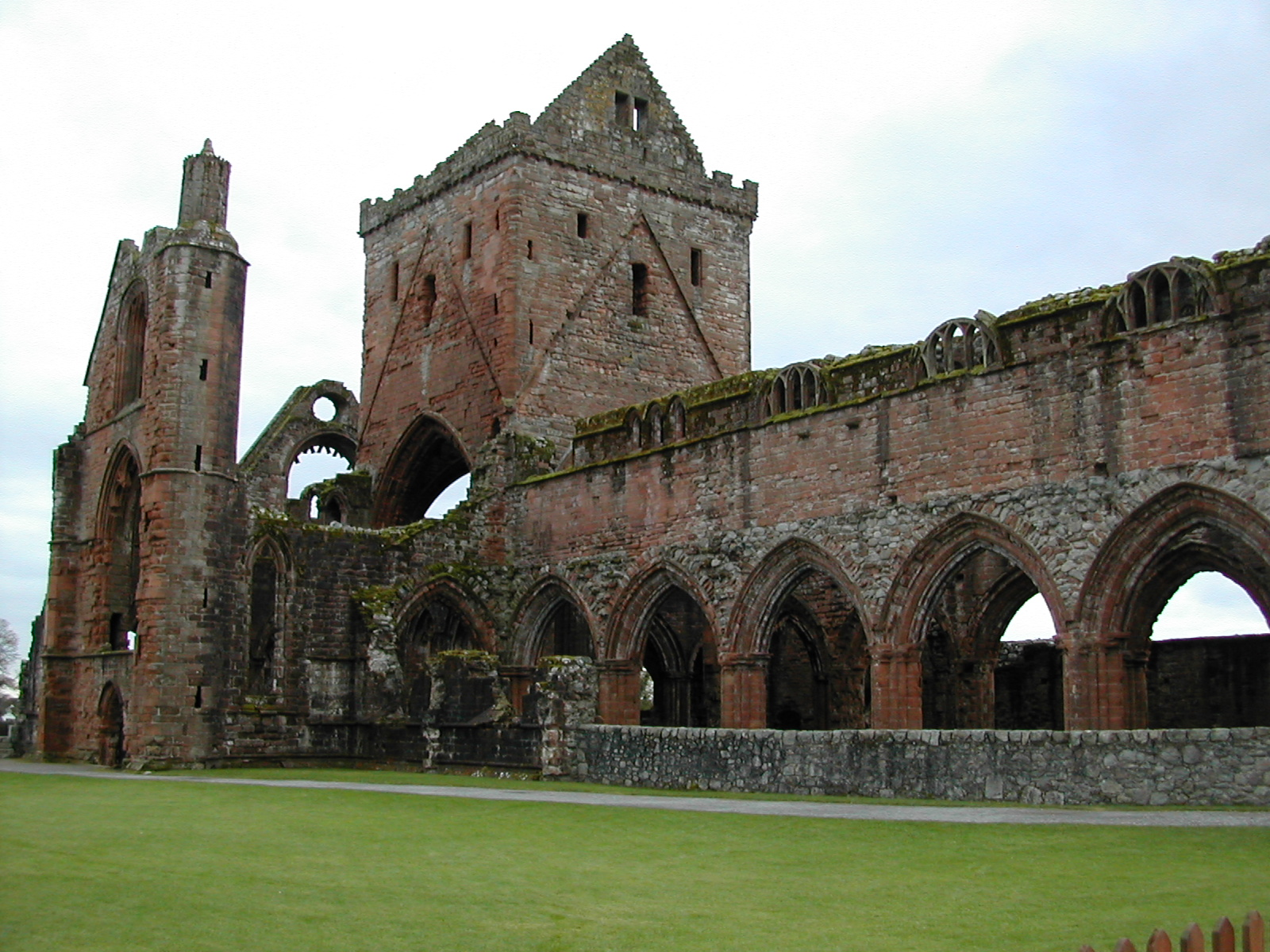 Nom du fichier : DSCN2647.JPG Taille du fichier : 681.7 Ko (698109 octets) Date : 2003/10/30 17:03:57 Taille de l'image : 1600 x 1200 pixels Résolution : 300 x 300 ppp Profondeur en bits : 8 bits/canal Attribut de protection : Désactivé Attribut Masqué : Désactivé ID de l'appareil : N/A Appareil : E775 Mode de qualité : FINE Mode de mesure : Multizones Mode d'exposition : Programme Auto Speed Light : Non Distance Focale : 5.8 mm Vitesse d'obturation : 1/78.7 seconde Ouverture : F2.8 Correction d'exposition : 0 IL Balance des blancs : Auto Objectif : Intégré Mode Synchro-Flash : N/A Différence d'exposition : N/A Programme Décalable : N/A Sensibilité : Auto Renforcement de la netteté : Auto Type d'image : Couleur Mode Couleur : N/A Saturation : N/A Contrôle Saturation : N/A Compensation des tons : Normal Latitude (GPS) : N/A Longitude (GPS) : N/A Altitude (GPS) : N/A